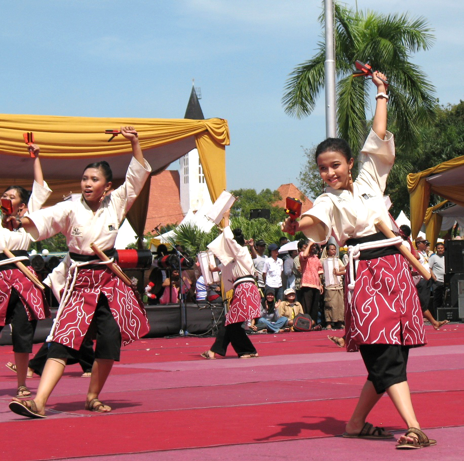 Yosakoi dance perfomed by Institut Teknologi Sepuluh Nopember team in Surabaya. During Surabaya and Kōchi sister cities celebration.